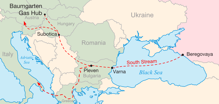 Map of the proposed South Stream natural gas transportation pipeline.